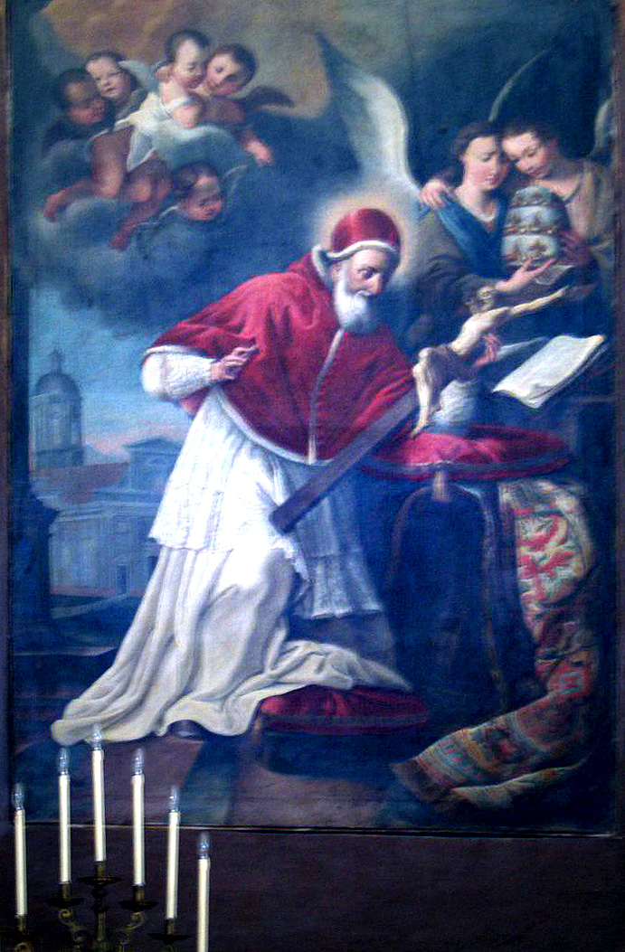 Ecstasy of St. Pius V; painting by Baldassarre Croci (1602-1603); Basilica of Santa Maria degli Angeli, Assisi, Italy